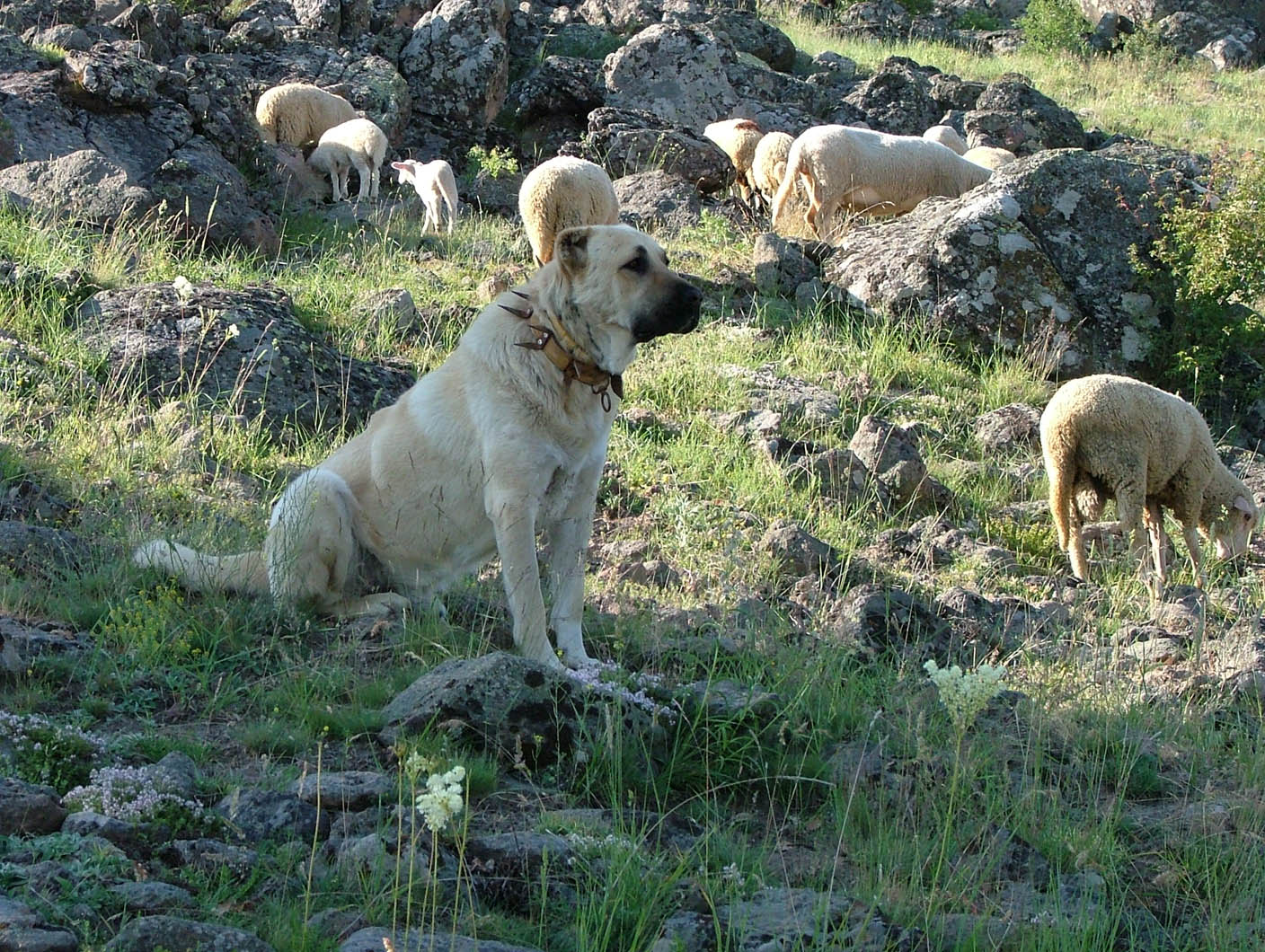 Kangal in Turkey with sheep